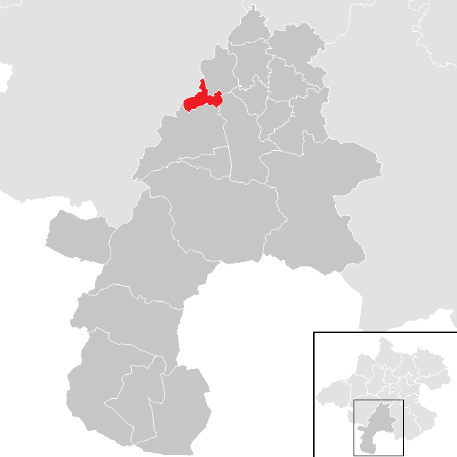 district Gmunden